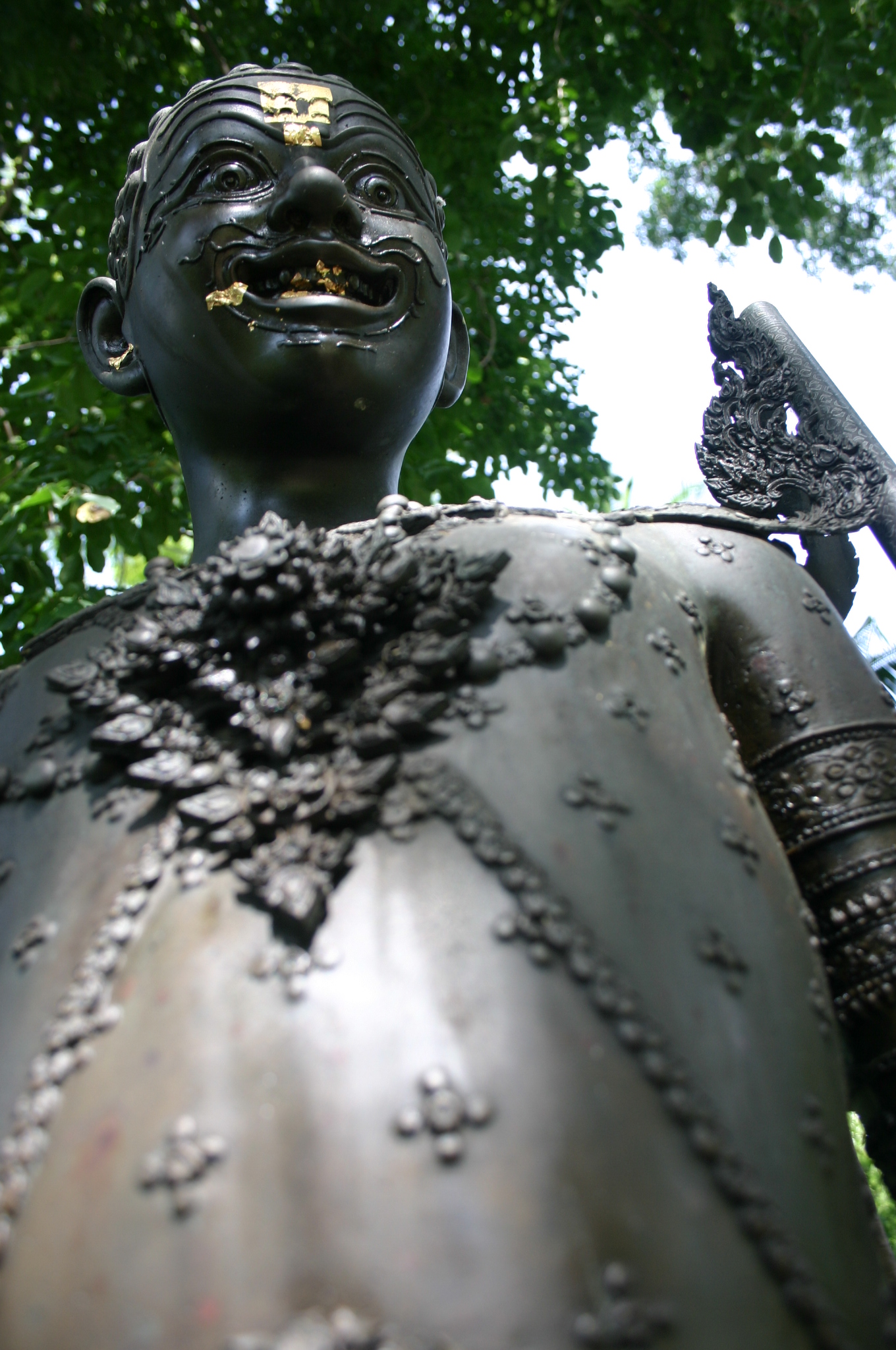 Thai sculpture, in Rama II Memorial Park, Amphoe Amphawa, Samut Songkhram province, Thailand, by Chakrabhand Posayakrit, Thai National Artist